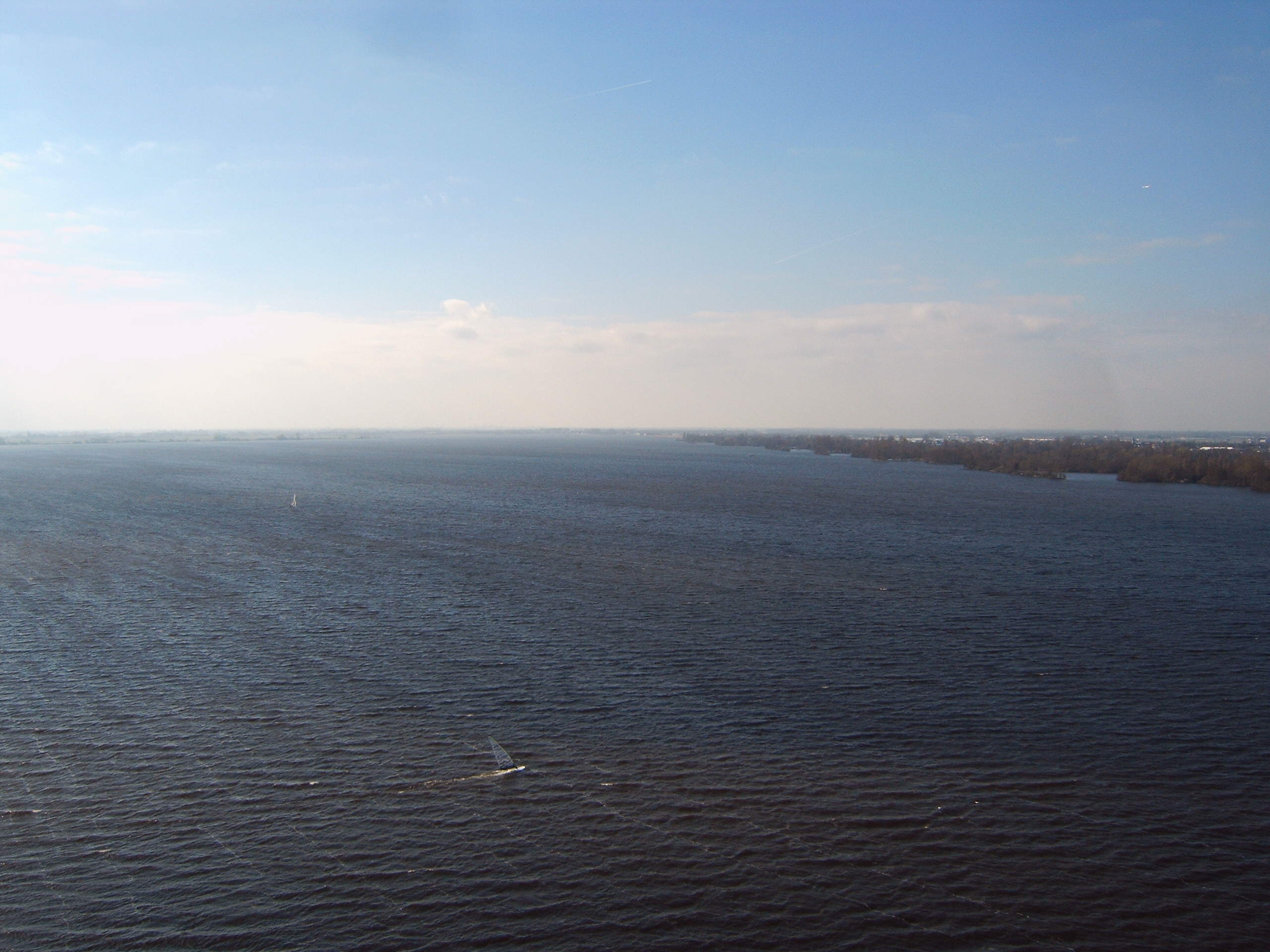 Westeinderplassen lakes, south of Aalsmeer, the Netherlands, from the top of the water tower in Aalsmeer